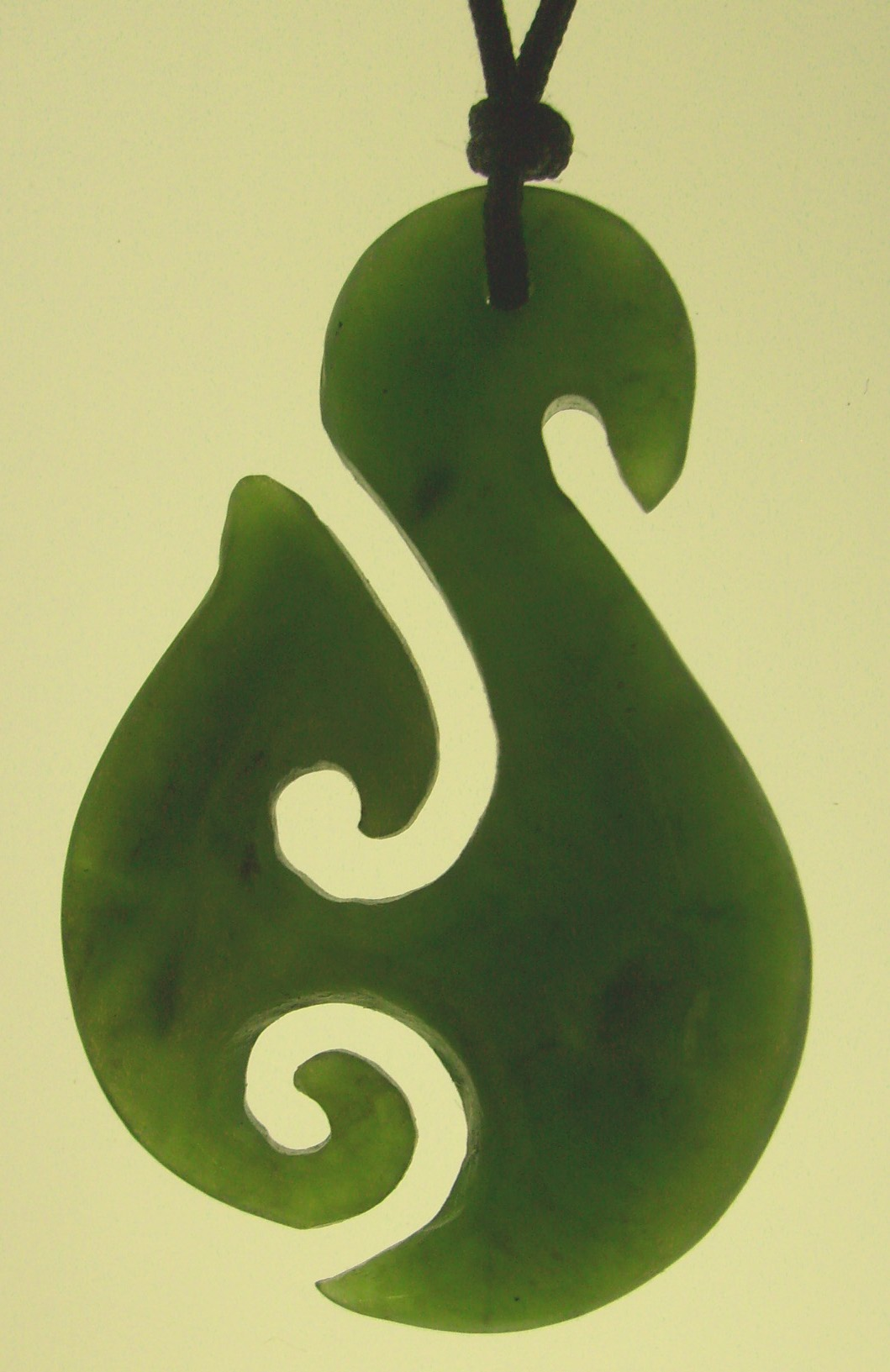 Jade pendant: Māori Style Ornamental Hook; NewZealand "Greenstone" work